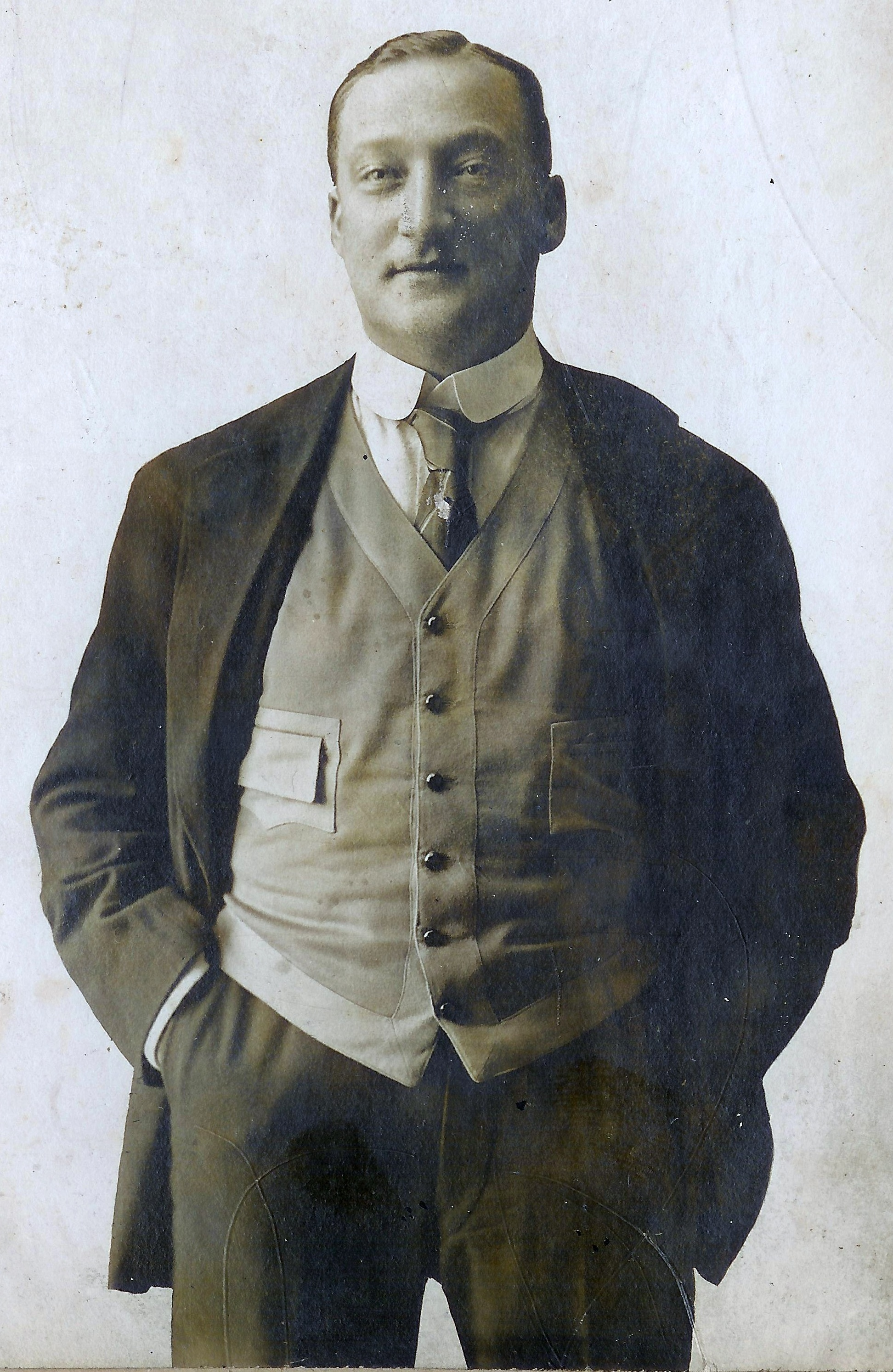 Picture of Alec Hurley taken around 1910